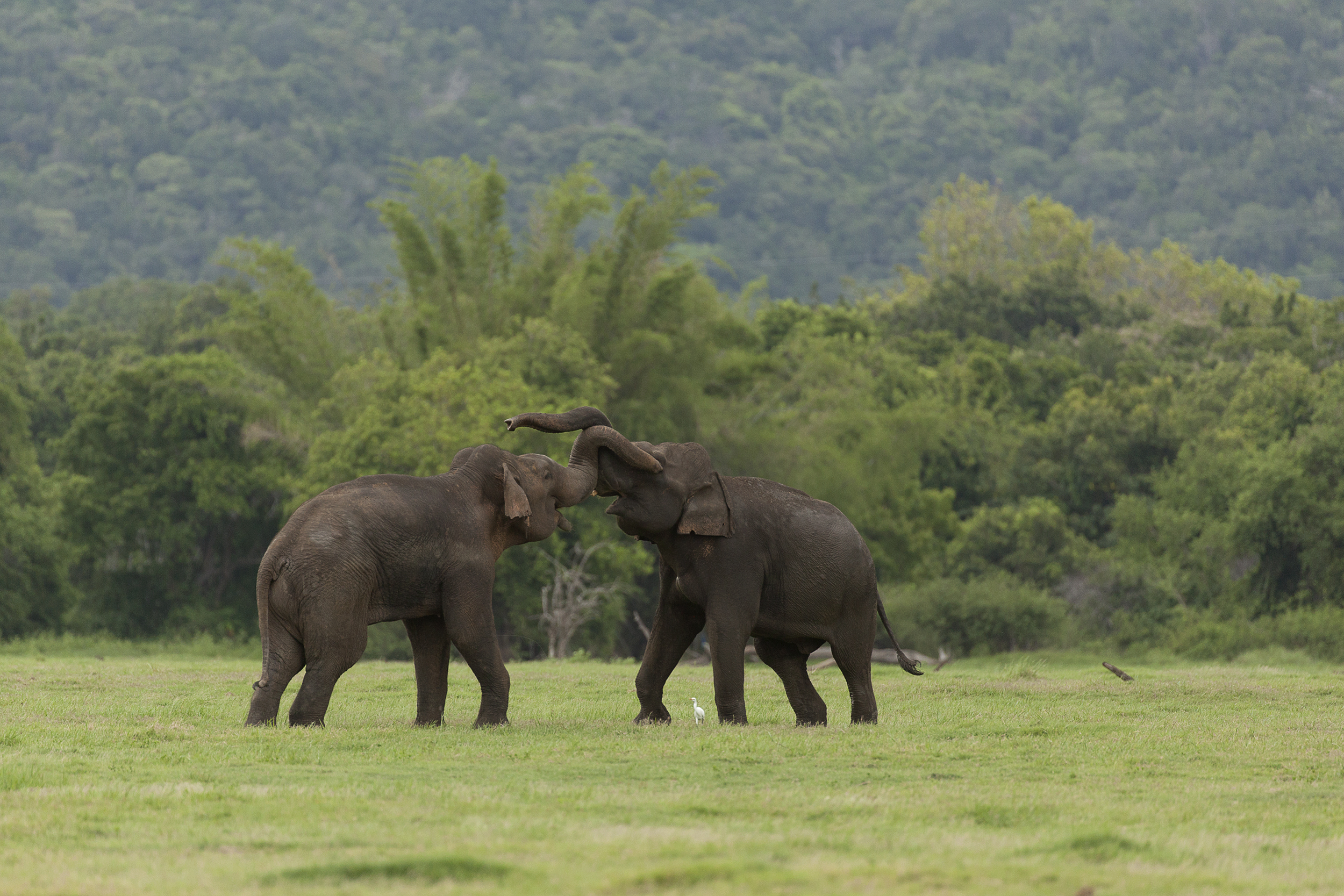 Took this image in minneriya national park when two elephants were engaged in friendly banter.